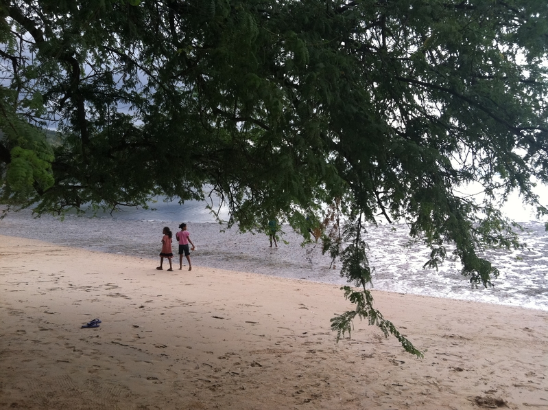 Beach at Lecidere, Dili